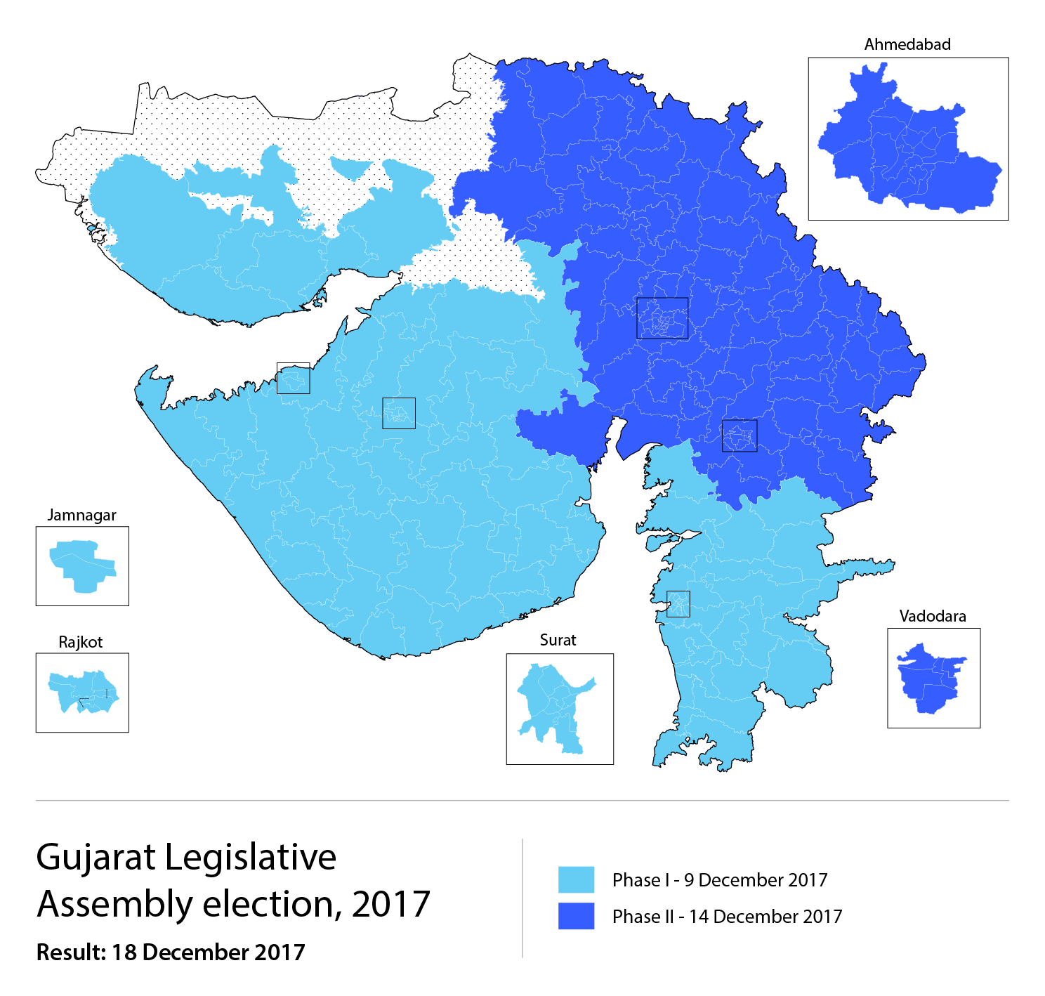 A map showing the polling dates for various districts in the Gujarat Legislative Assembly election, 2017.